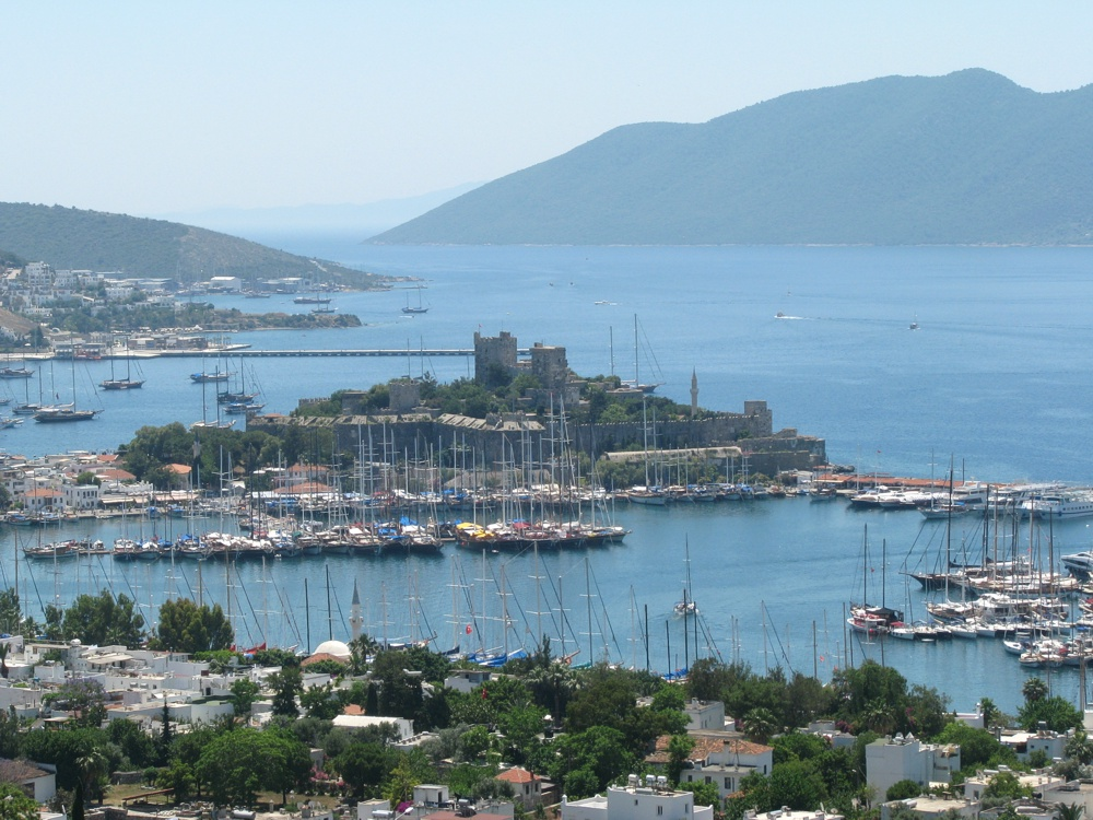 Castle of St. Peter - view from the theatre in Bodrum (ancient Halicarnassus).